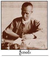 Ba Win (Burmese: ဘဝင်း, pronounced: [ba̰ wɪ́ɴ]; 10 June 1901 – 19 July 1947) was a Burmese politician, and Minister of Trade in the Interim Government of Burma.